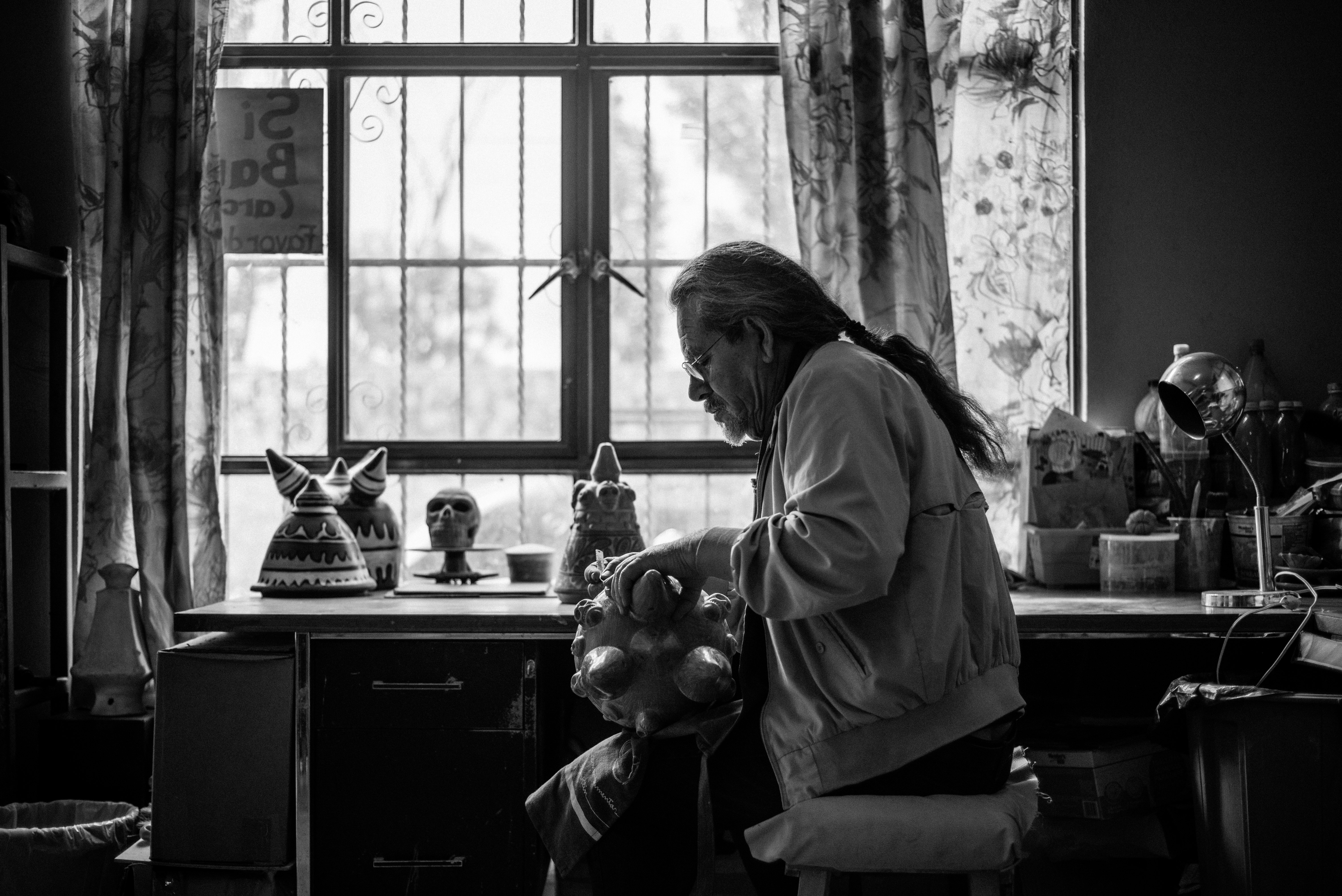 Mexican artist Trino Nuñez in his home studio, September 29, 2018 by Anthony Arena